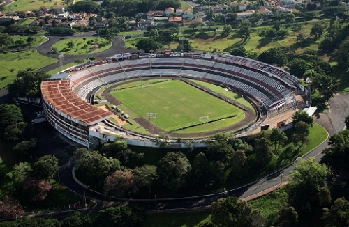 Estádio Santa Cruz (Botafogo F.C.)